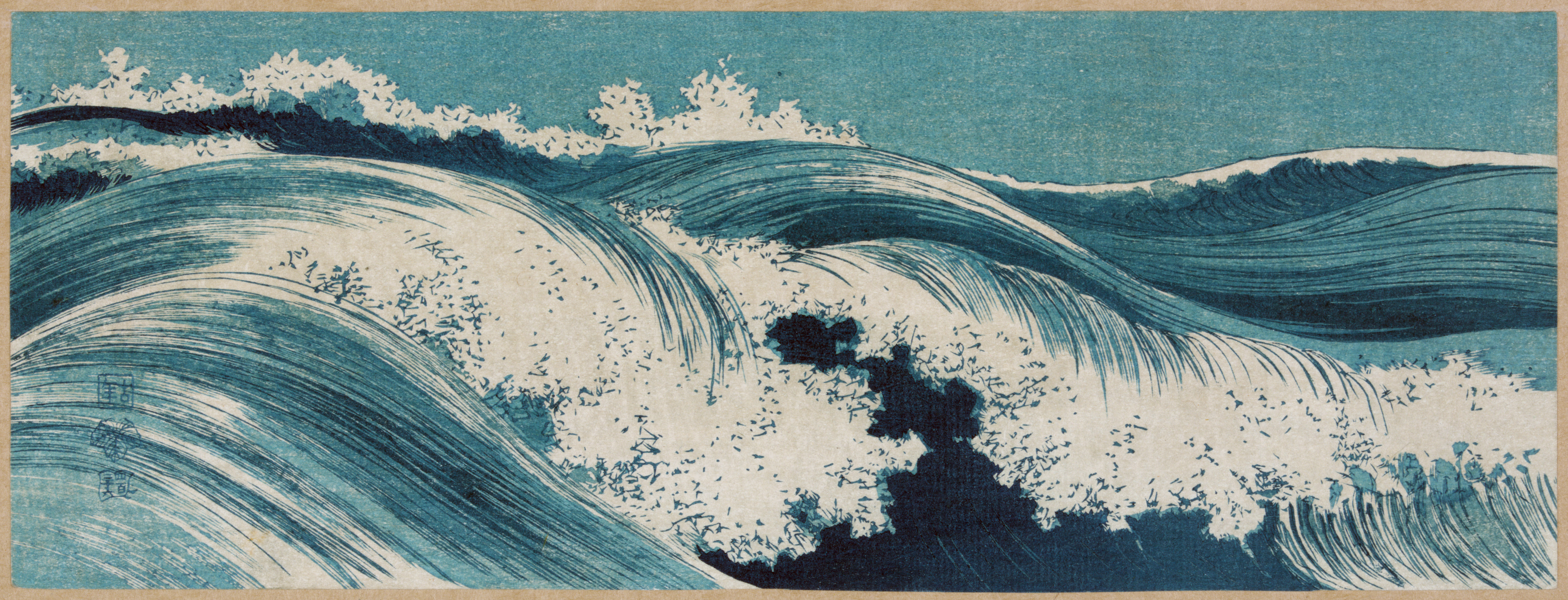 Hatō zu (Waves). Woodcut print after Konen Uehara, between 1900 and 1920. From the Japanese Fine Prints Collection at the Library of Congress More woodcuts | More Japanese fine prints [PD] This picture is in the public domain